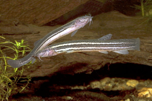 Misgurnus fossilis photographed in a fish tank.